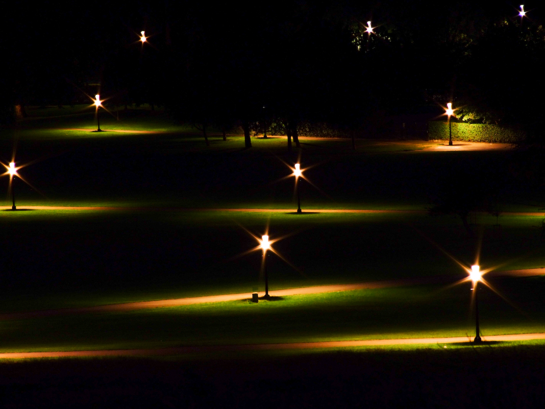 Primrose Hill Lights